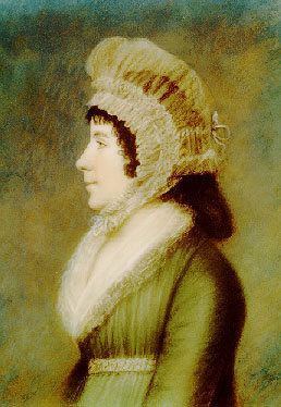 Dolley Payne Todd (Mrs. James) Madison was painted in pastels by James Sharples, Sr. in 1797, when she was twenty-nine years old. At that time, Dolley lived in Virginia at the Montpelier plantation. Her second husband, James Madison, was active in Virginia politics.